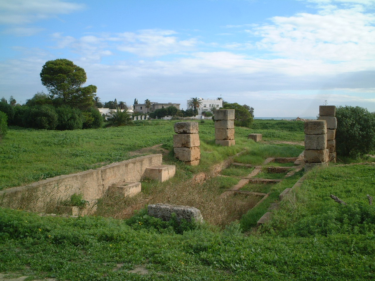 Punic port, Carthage, Tunisia.